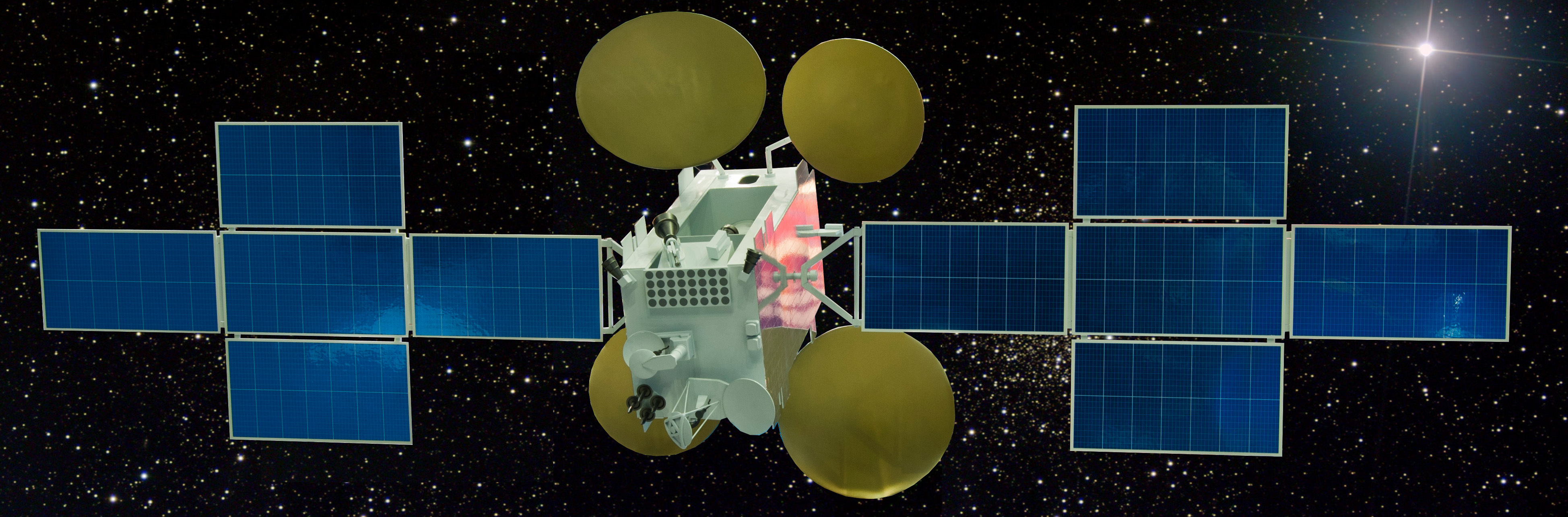 Model of Russian Express-AM5 satellite during "La Semana de Espacio", in IFEMA, Madrid, 05.2011